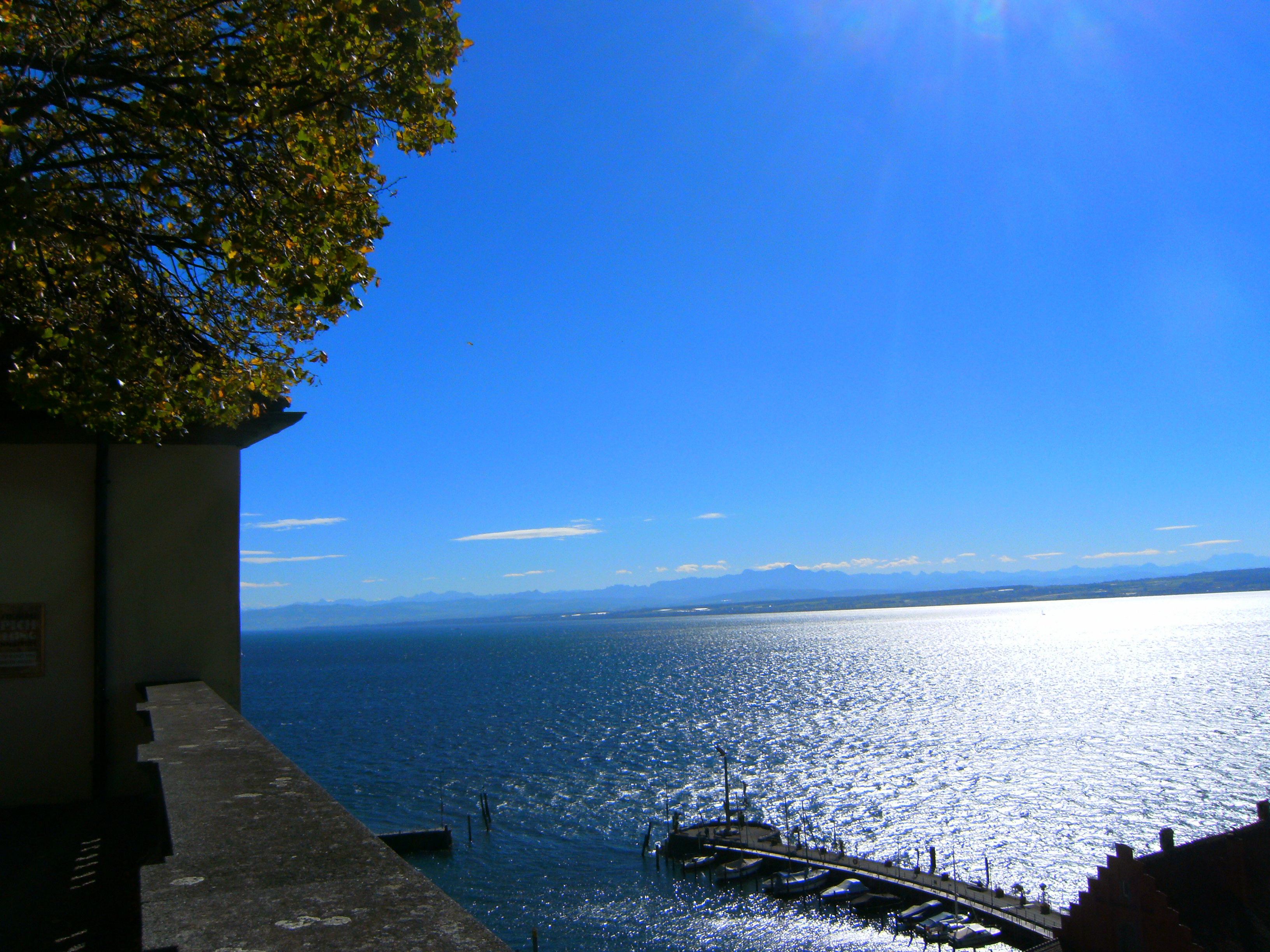 Meersburg, Germany: View from terrace of Neues Schloss on Lake Constance.